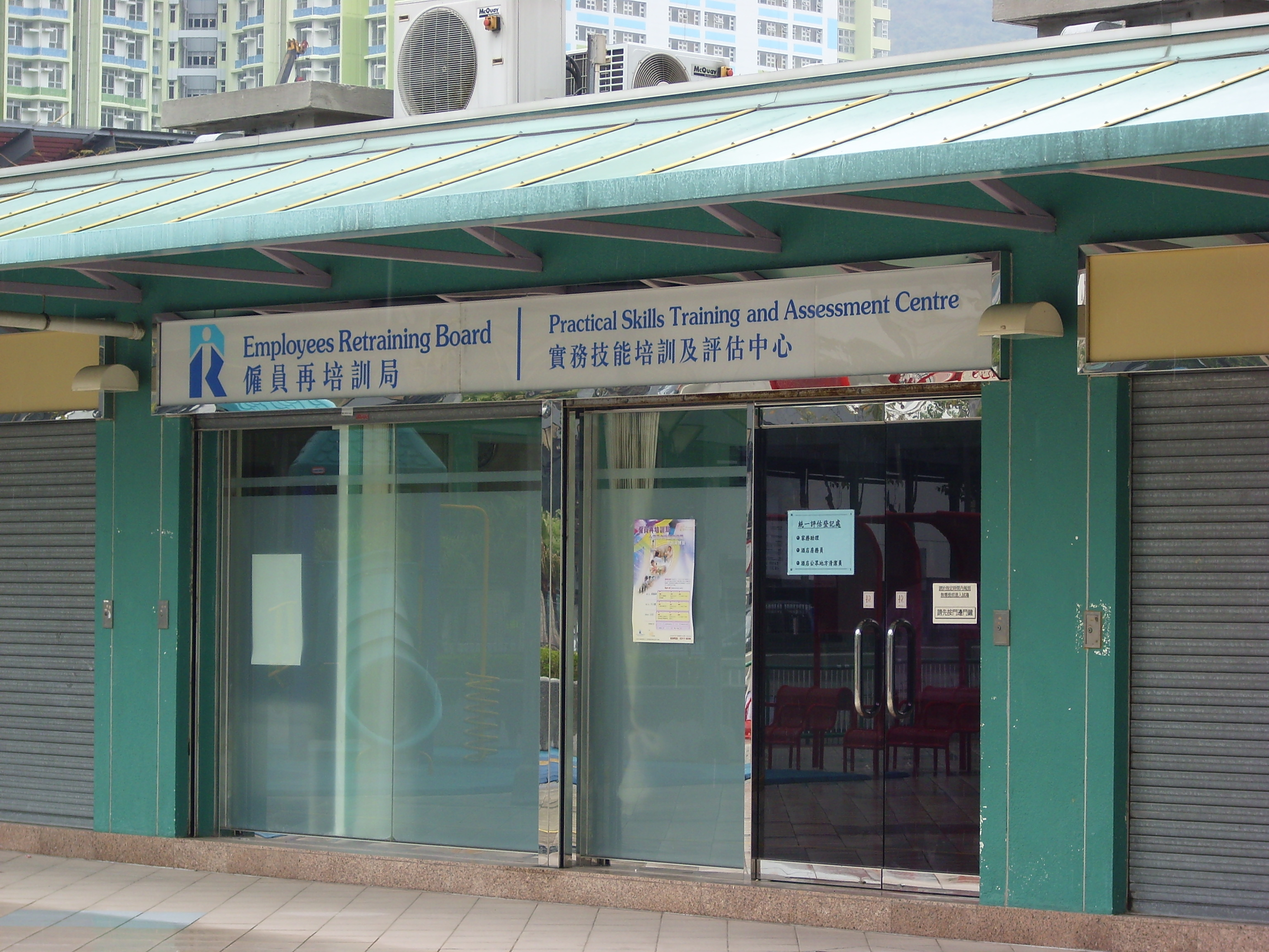 ERB Practical Skills Training and Assessment Centre 僱員再培訓局實務技能培訓及評估中心